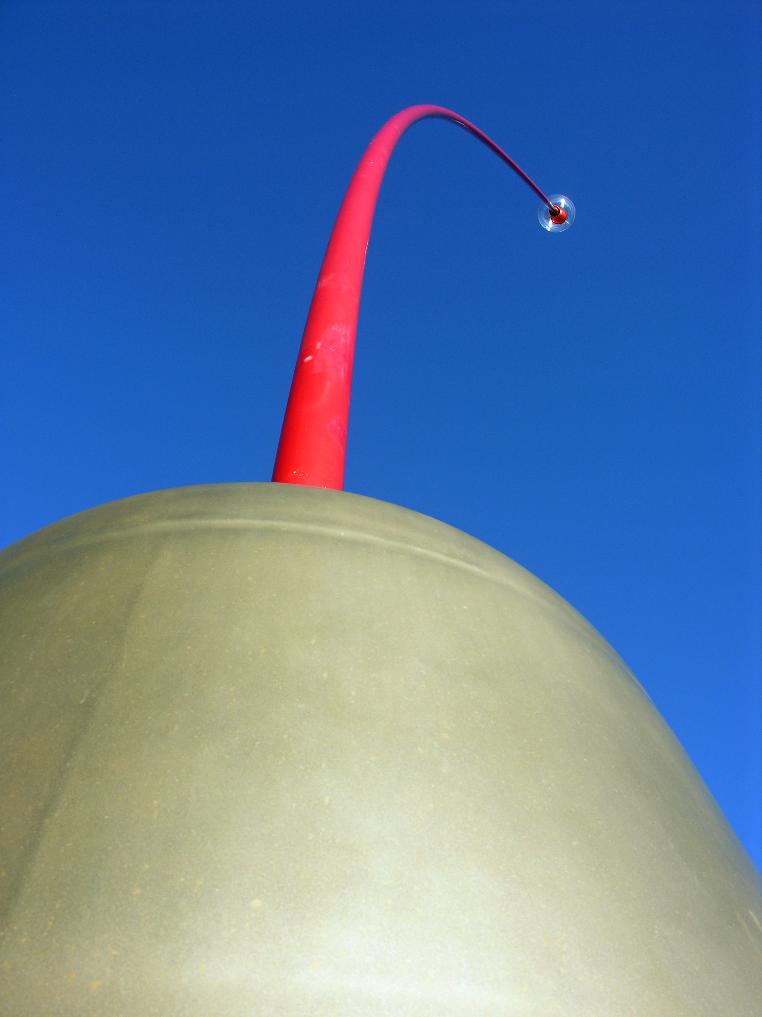 This sculpture is 45 metres high and located on the waterfront in a very windy spot. The pole sways dramatically in the wind and at night the light on top creates an endlessly fascinating effect. Len Lye was a New Zealand born artist who lived most of his life in New York and was a central figure in the kinetic art movement. He left a large quantity of his works to the Govett-Brewster Art Gallery in New Plymouth, together with many plans and conceptual drawings for works he never constructed. In the past few years there has been a fashion in New Zealand for local authorities to use this archive to construct some of his concepts. This is one of them. As usual with Len Lye the idea was much rubbished, but now it is there it has become much loved and a great tourist attraction. However building Lye's concepts is a high risk project. The 'Water Whirler', built last year in Wellington, is great when the water is whirling, but nothing more than a thin pole when it isn't. The problem here is the complexity of the engineering. 'Water Whirler' has spent most of this year out of action due to engineering failures.